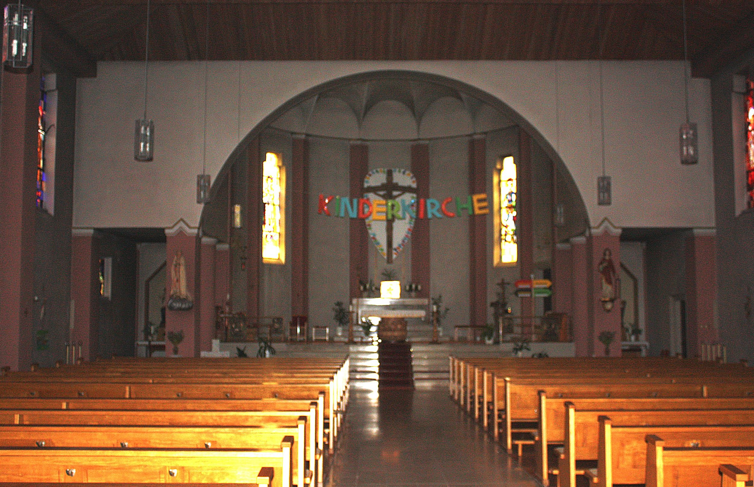 Bubach (Eppelborn), church St. Laurentius, inner view